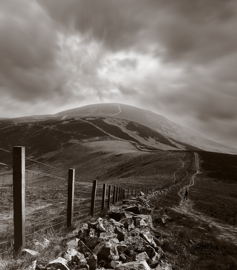 View from the slops of Allermuir, with the Pentland Hills carrying on into the distance